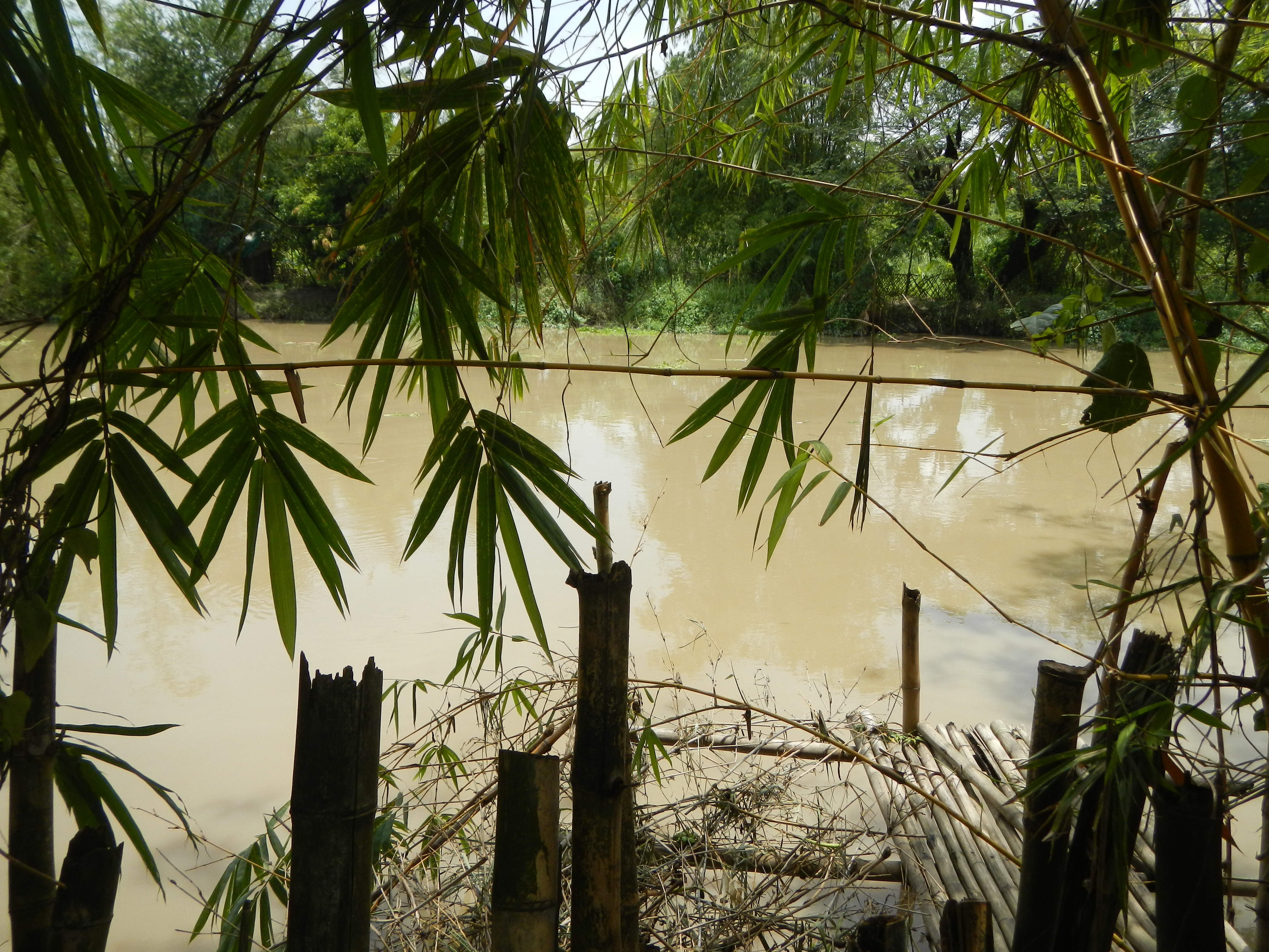 Barangay Calizon, Calumpit, Bulacan - (landscape, scenery, Bambusa vulgaris, or Golden Bamboo, or Buddha's Belly Bamboo beside an ageless Tamarind (Tamarindus indica) - landmarks are the Barangay Hall and Santa Cruz Chapel along the interior Calumpit-Hagonoy-Malolos, Bulacan Provincial Road, surrounded by the Pampanga River from Calumpit River and Hagonoy River).